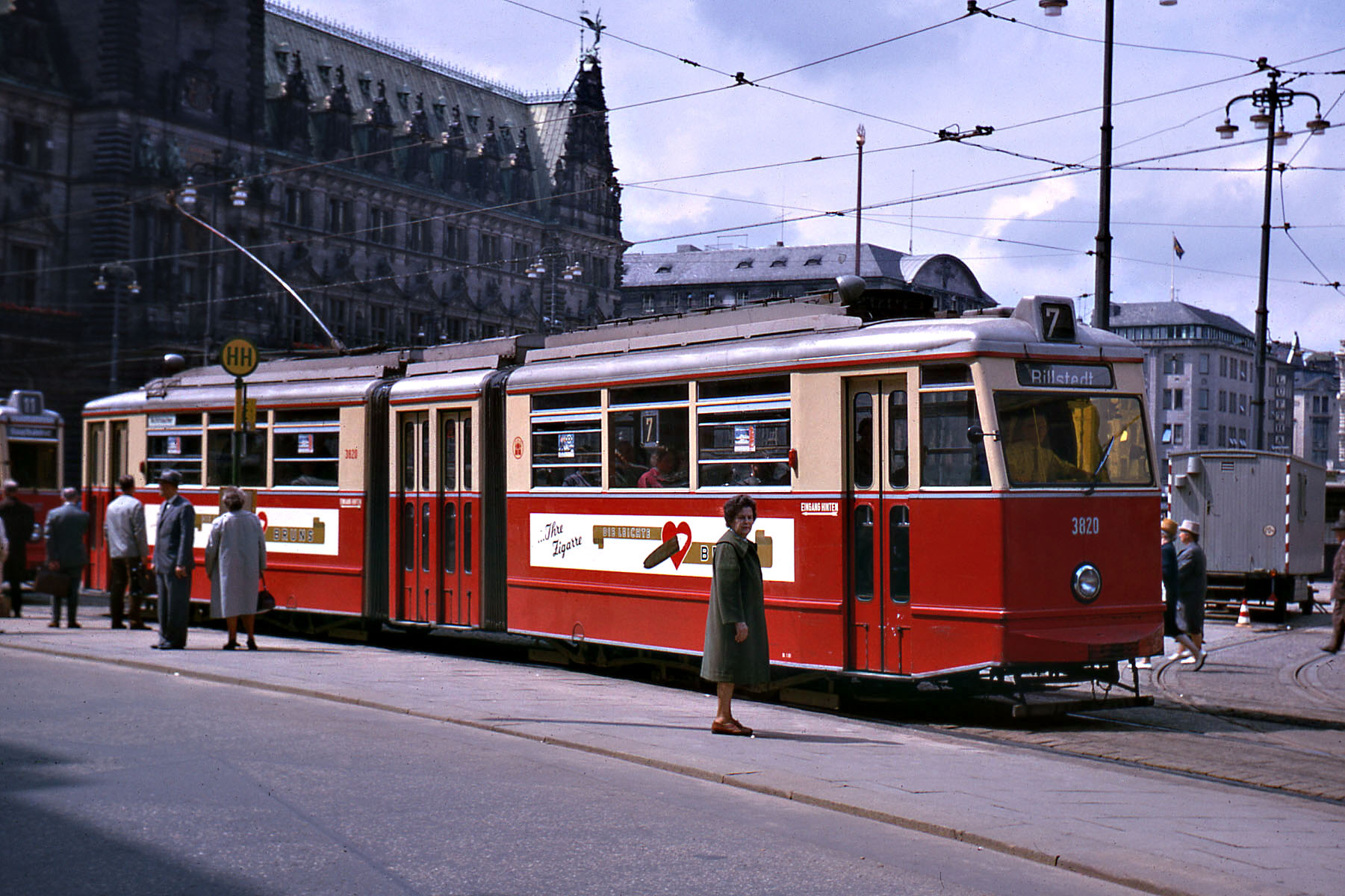 Tram in Hamburg, 1965